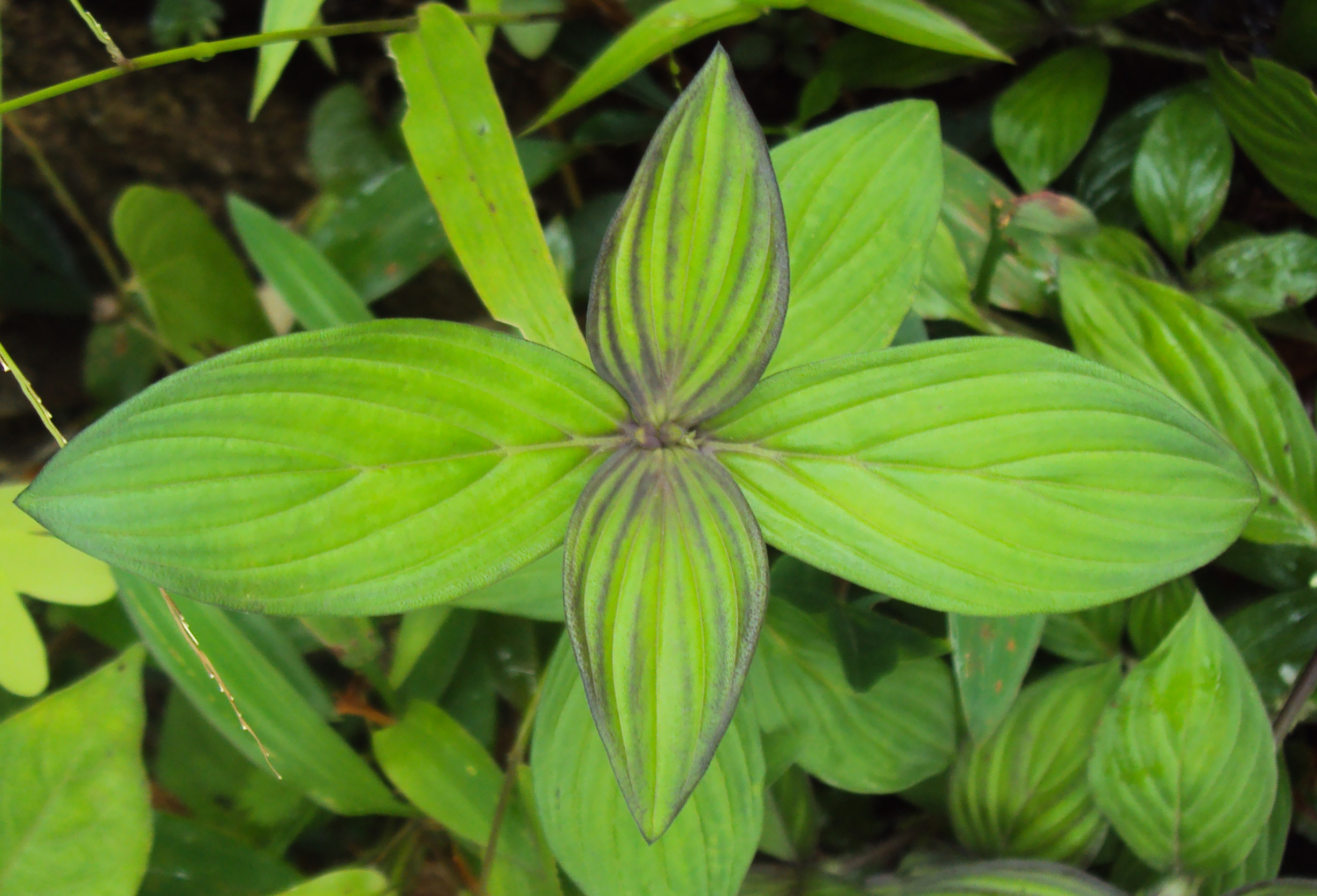 Spermacoce ocymoides